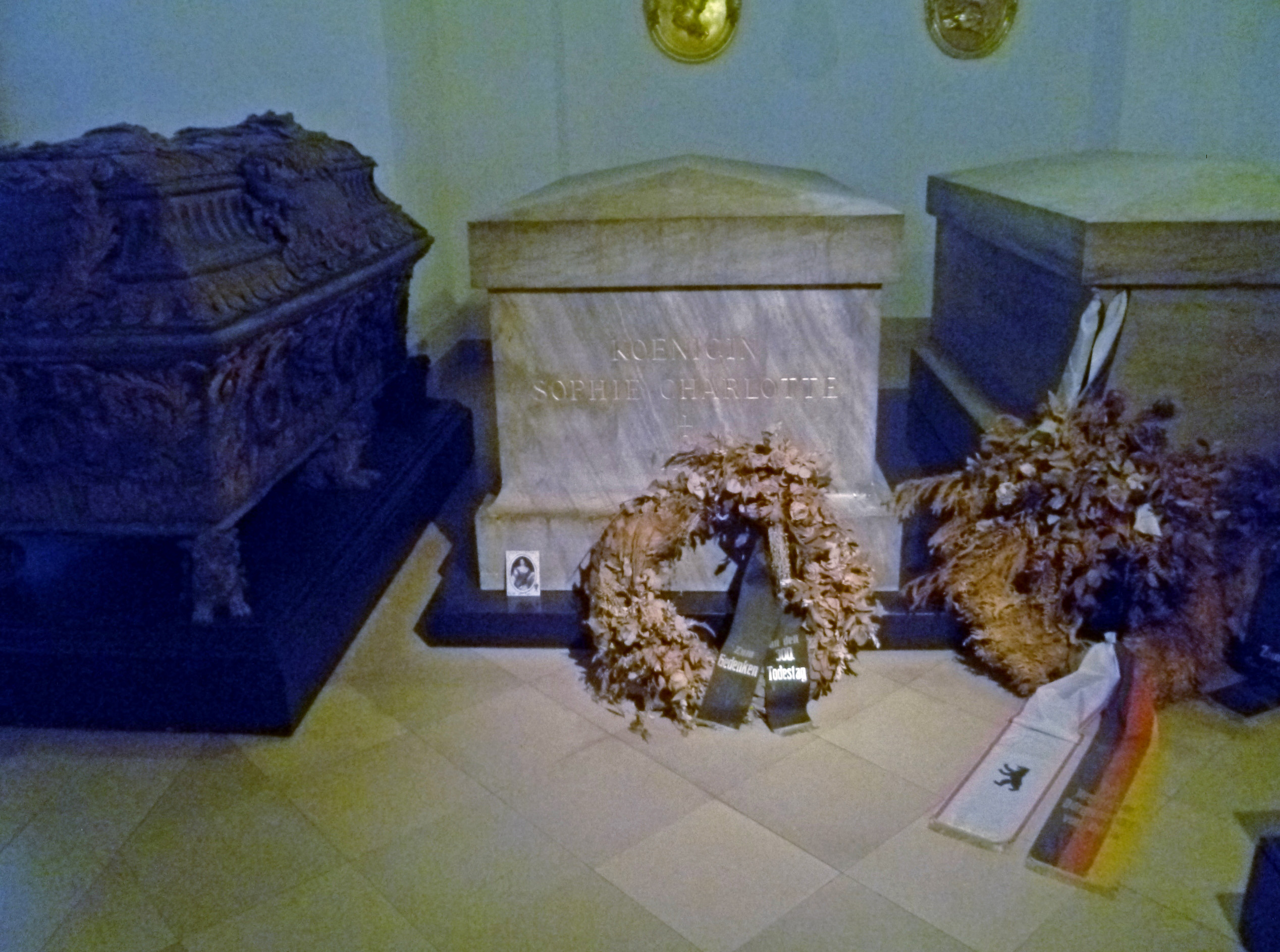 Tomb of Queen Sophie Charlotte von Hannover (1668-1705); Hohenzollern Crypt, Berlin Cathedral, Berlin, Germany